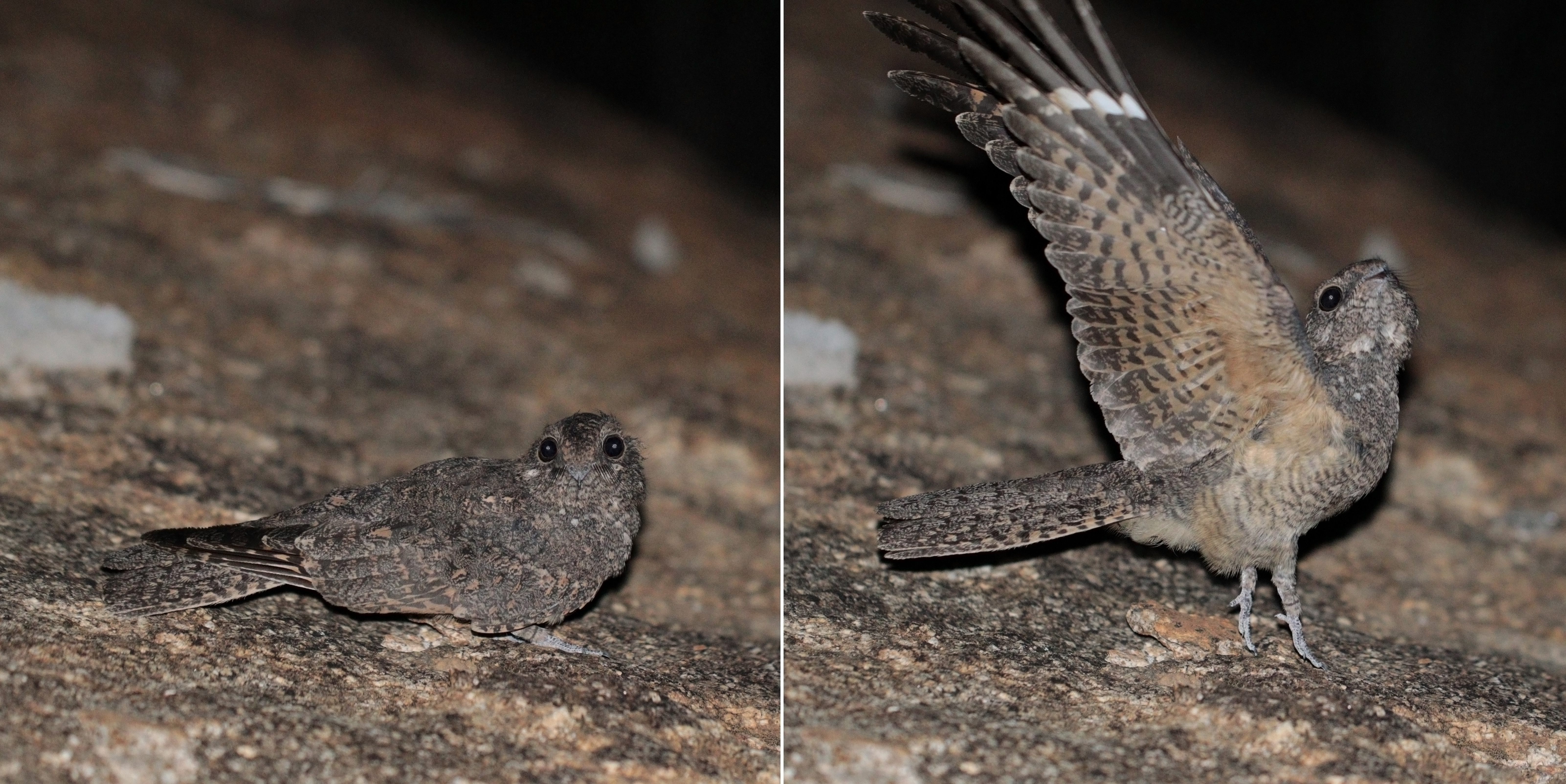 Freckled nightjar (Caprimulgus tristigma) female composite, Erongo Wilderness Lodge, Namibia